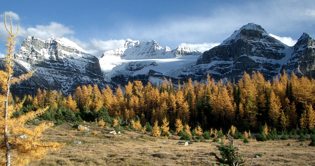 Layers of Autumn: It is bizarre to see pine trees turn golden in Autumn. We tend to associate them with the deep and evergreen colors. And so these rare larch trees are all the more beautiful.